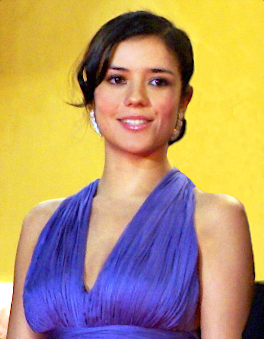 Catalina Sandino Moreno attending the 61st Cannes Film Festival for the biopic film, Che, last May 21, 2008.